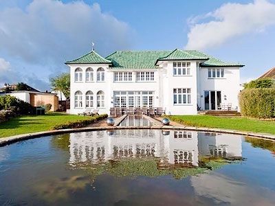 A fine example of Art Deco Architecture from 1929